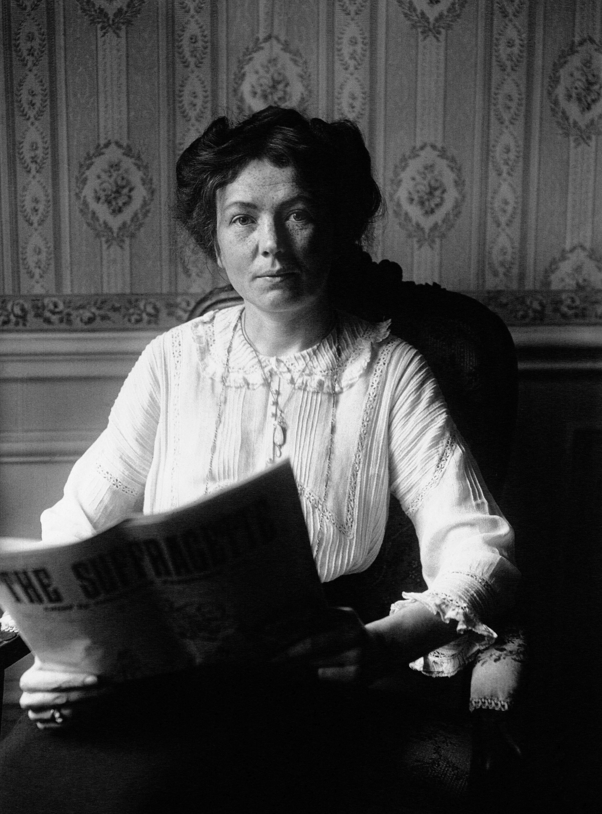 Christabel Harriette Pankhurst (1880-1958), a co-founder of WSPU. Cropped print